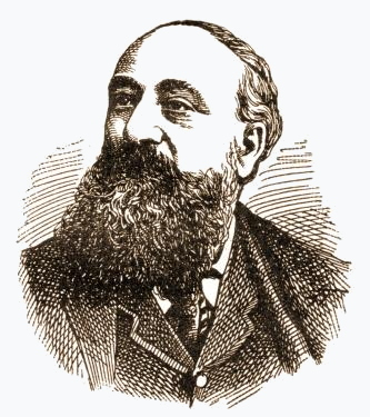 Sketch of George Hatfeild Dingley Gossip (died 1907), published in 1888 in the Columbia Chess Chronicle (a U.S. publication) and presumably made around that time.